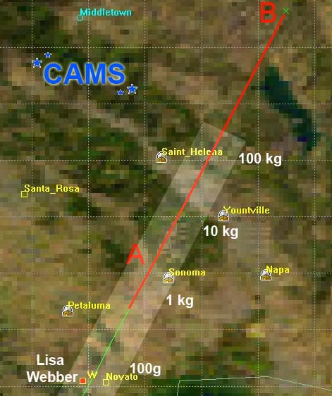 Map of Peter Jenniskens meteor trajectory for the Novato meteorite fall on 17 October 2012. Four ~100 gram fragments (3.5 ounces) have been found in Novato, California. More massive 1 kg fragments may have fallen near Sonoma with any 10 kg (22 pound) fragments possibly falling near Yountville / St. Helena.